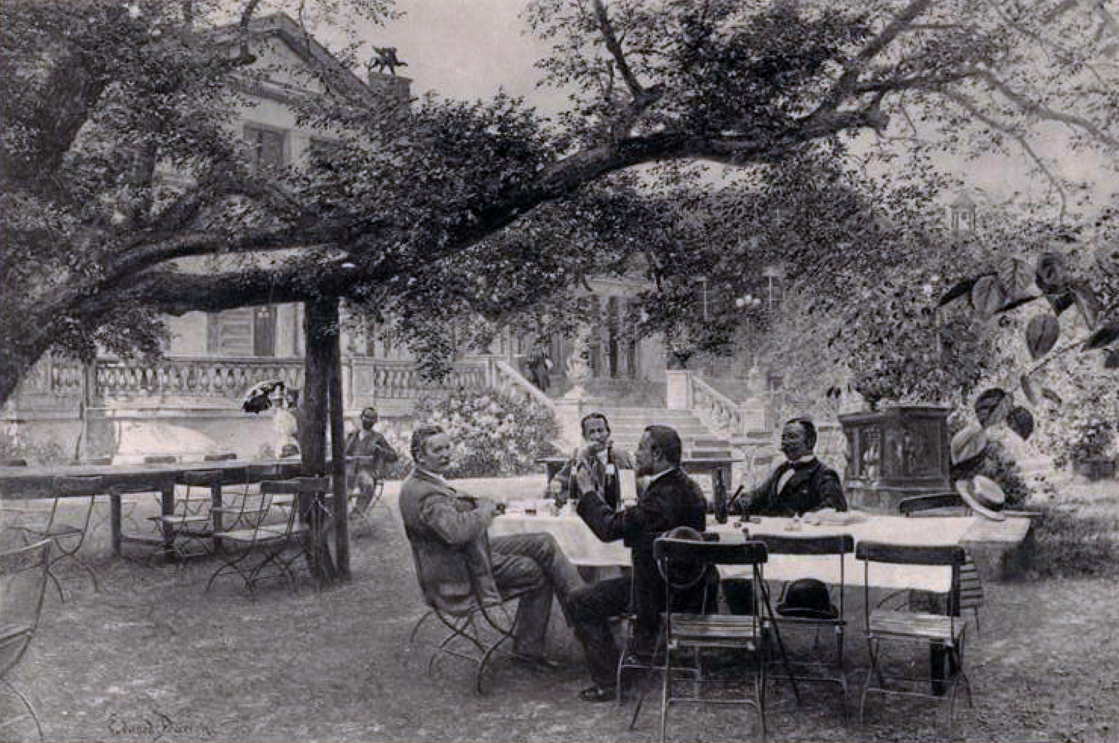 Mittag im Malkasten, Künstlerverein Malkasten, 1898 (in Geschichte des Künstlervereins Malkasten von Eduard Daelen, S. 61)